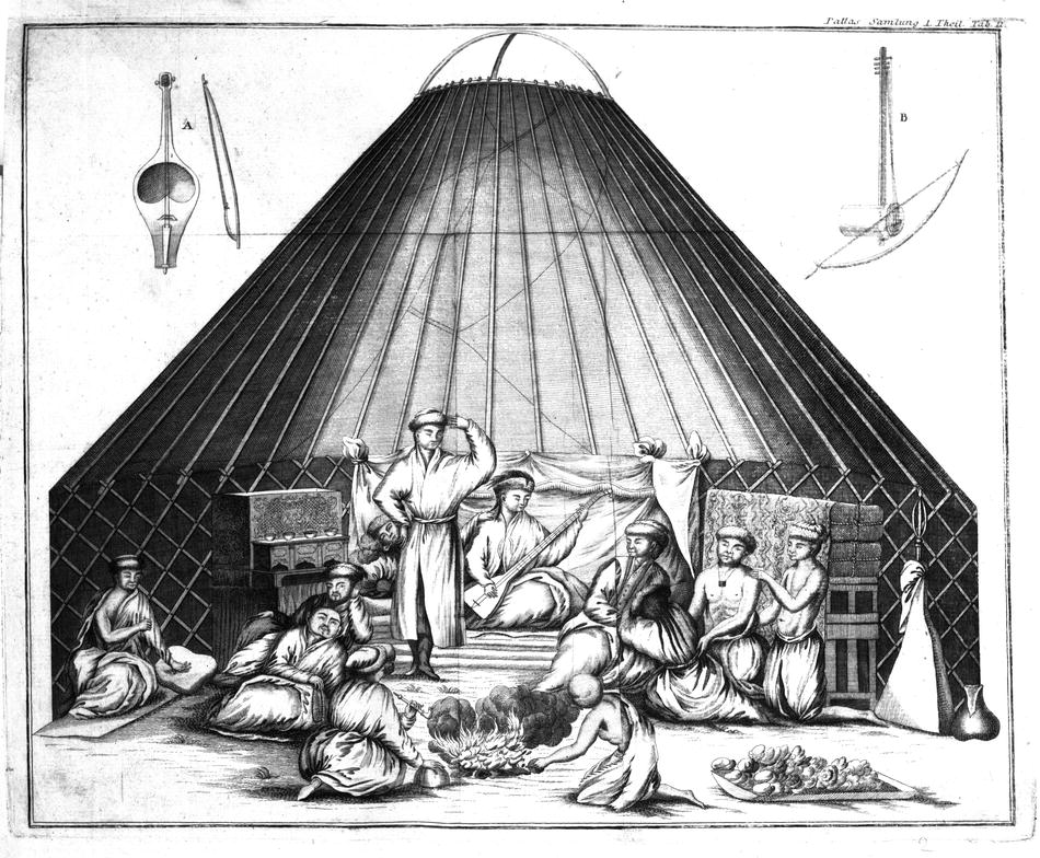 Mongol party preparing kumyss, a fermented drink.